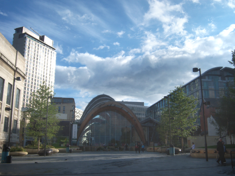 Tudor Square in Sheffield, England.